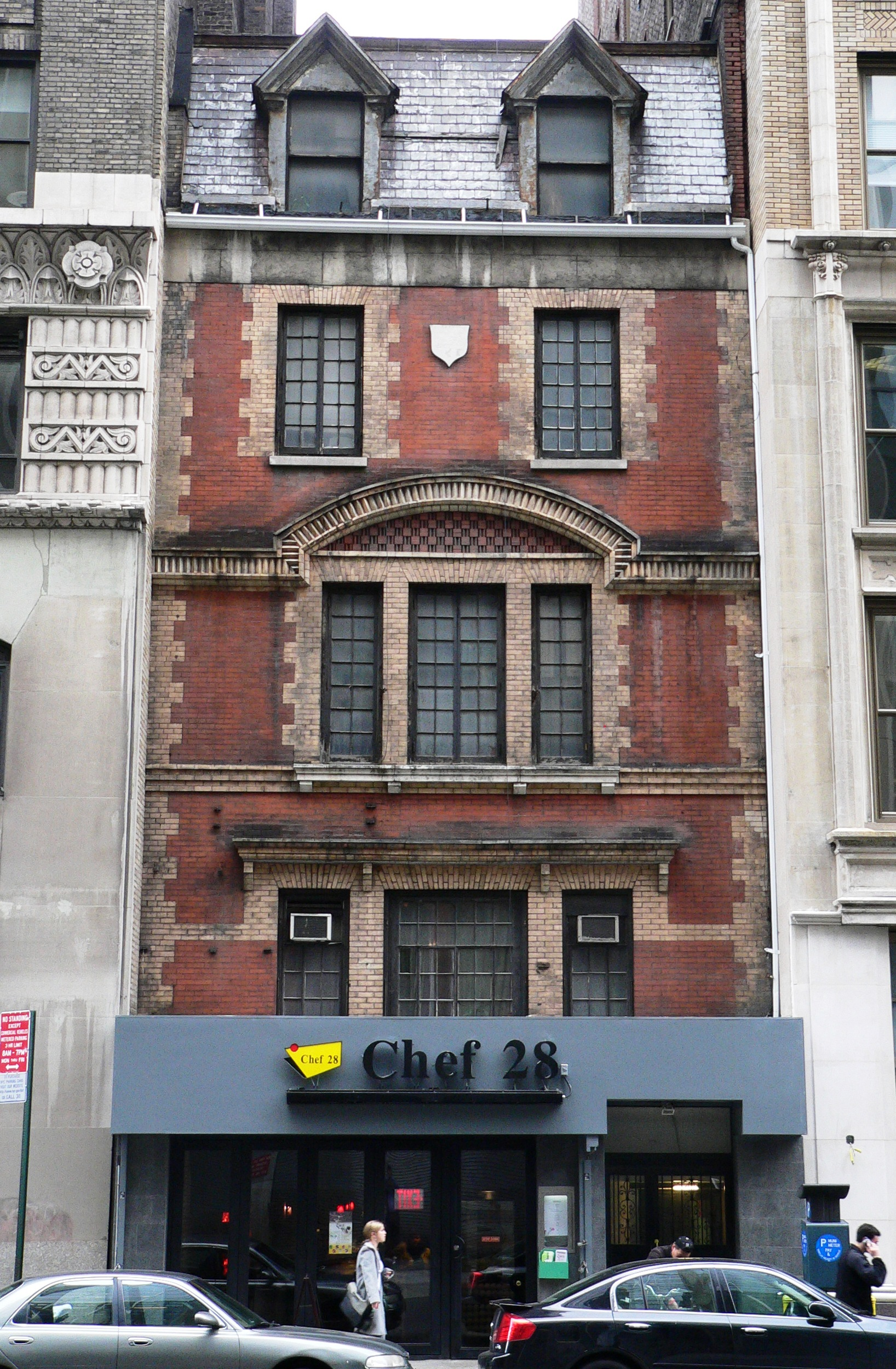 Original 1879 Delta Psi Chapter House at 29 E. 28th Street, New York City. The photo was taken from across the street